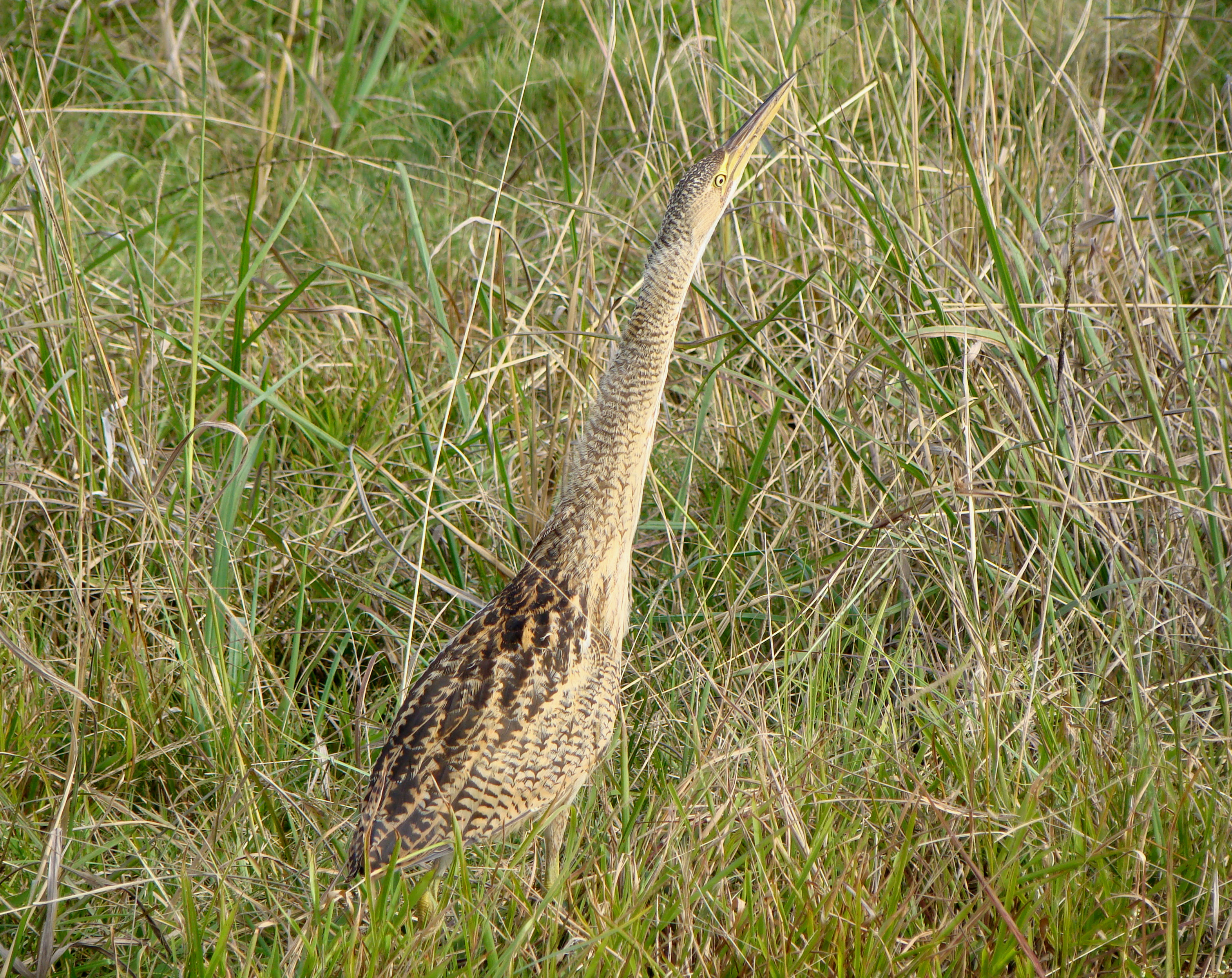 Botaurus pinnatus, Rio Grande, Rio Grande do Sul, Brazil 32°10'00"S 52°32'00"W